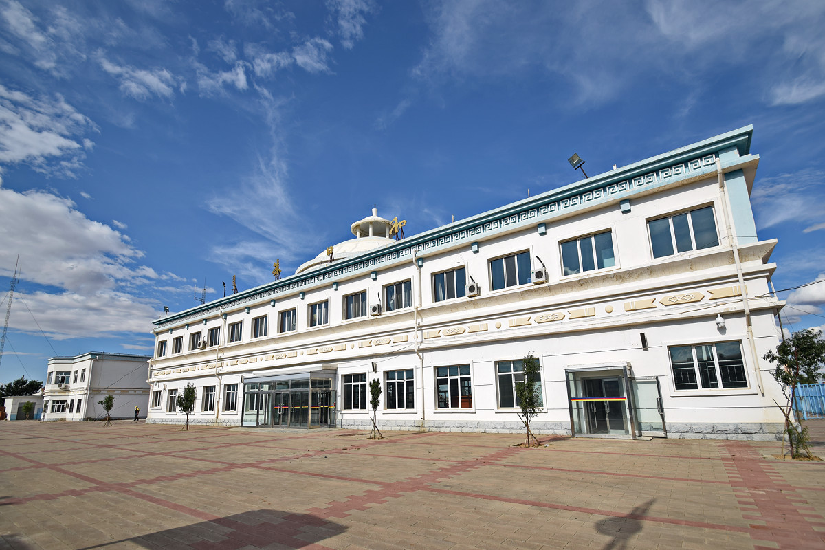 Zhurihe Railway Station, Jining-Erenhot Railway